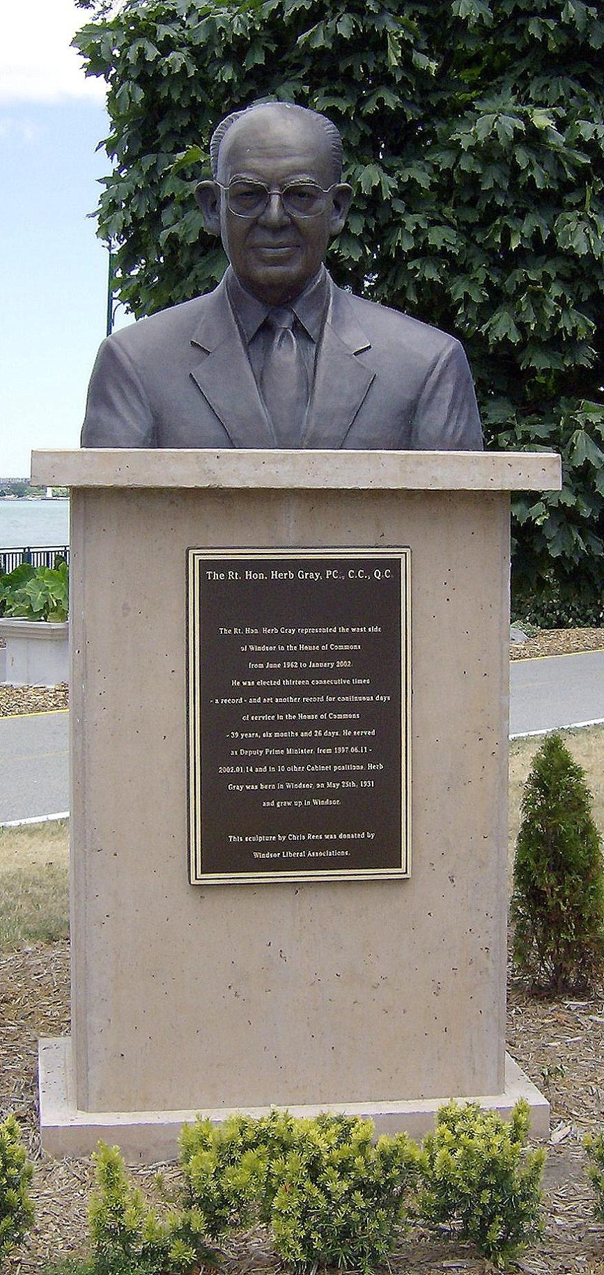 Herb Gray, former Liberal Cabinet Minister and MP from Windsor